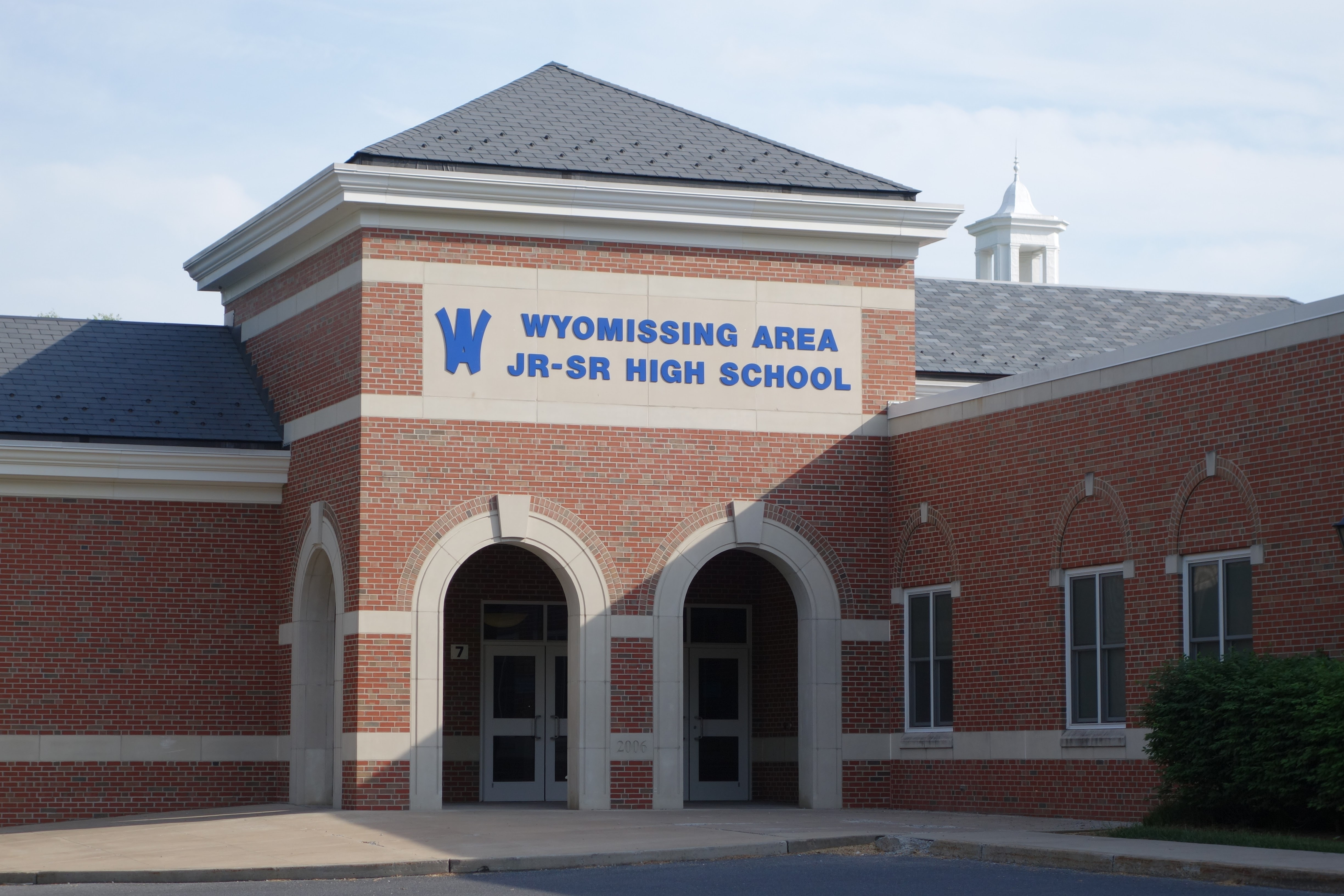 Wyomissing Area Junior Senior High School as seen from Evans Ave.